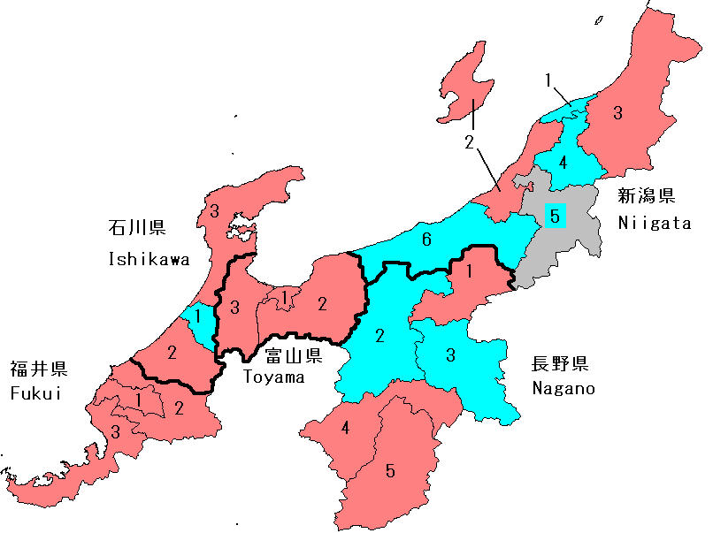 Presentation of the results of the Japan general election, 2003 in the single member districts of the Hokuriku block, based on district boundary information in :ja:衆議院小選挙区一覧 and mapping tools provided by Japanese Wikipedia User Koba-chan. Color codes: LDP - red DPJ - light blue New Komeito - green SDP - purple New Conservative Party - dark blue Other/Independent - gray Some independent politicians joined major parties immediately after the election, and their districts are marked with a colored square around the number. This is also true for the members of the New Conservative Party, which was wholly subsumed into the LDP.